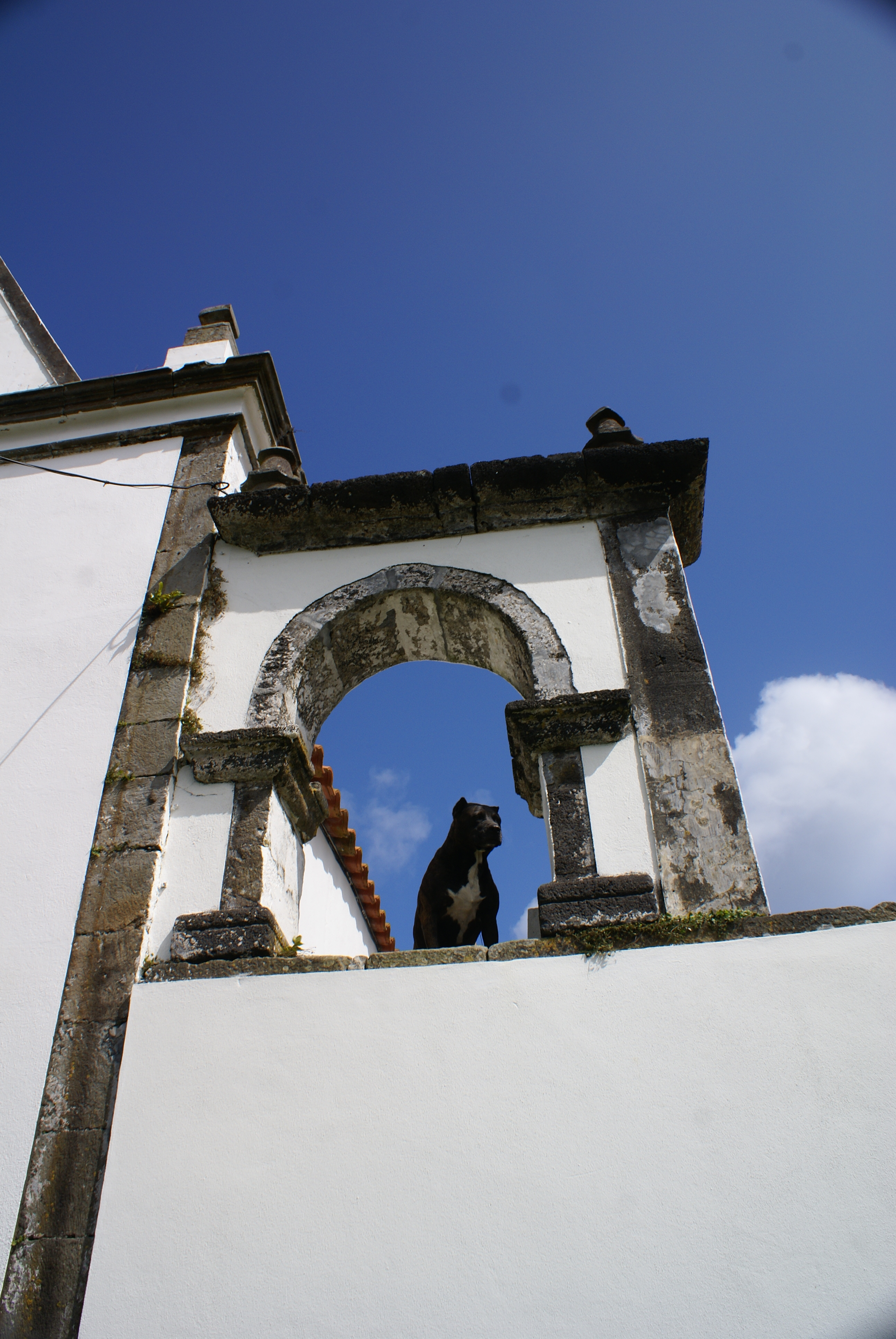 Ermida de Nossa Senhora do Pilar, pormenor, concelho da Horta, ilha do Faial, Açores, Portugal